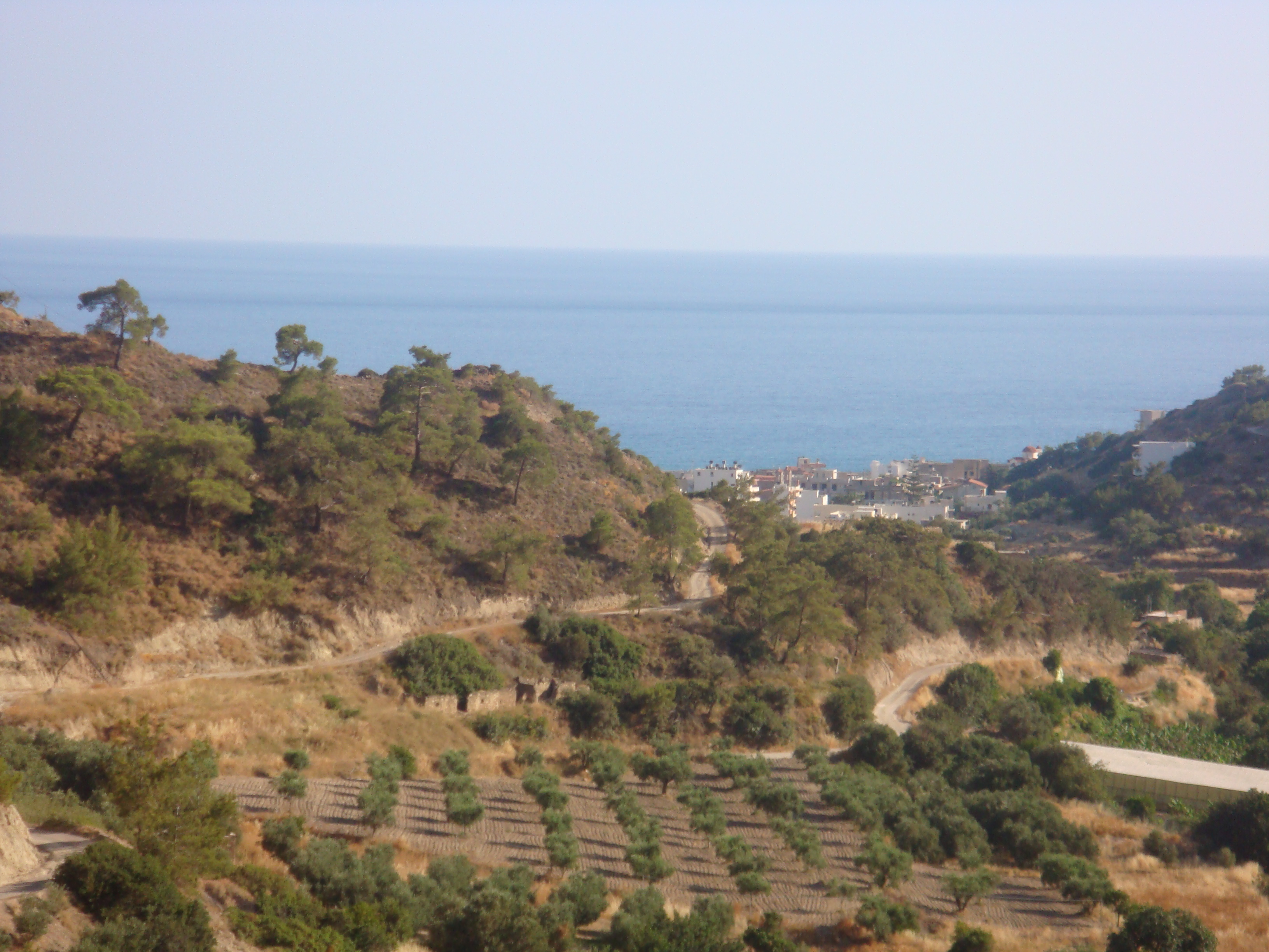 A view from Arvi, Iraklion Prefecture.